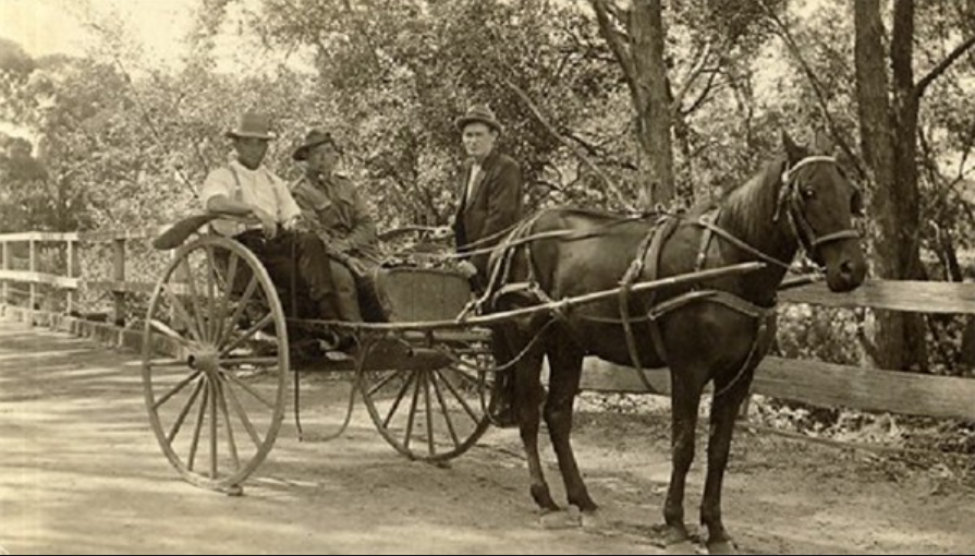 Andrew and Thomas William (Bill) Ah Chow